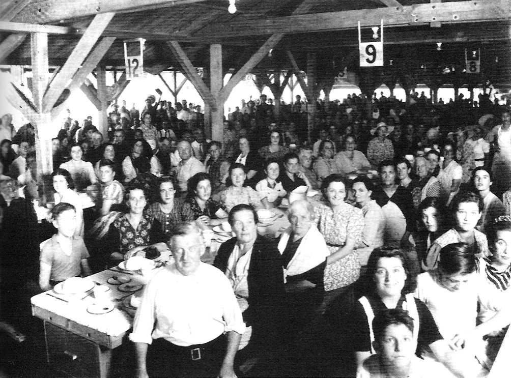 Gibraltarians having lunch at the Gibraltar Evacuee Camp in Jamaica during the World War II evacuation of the Gibraltarians.